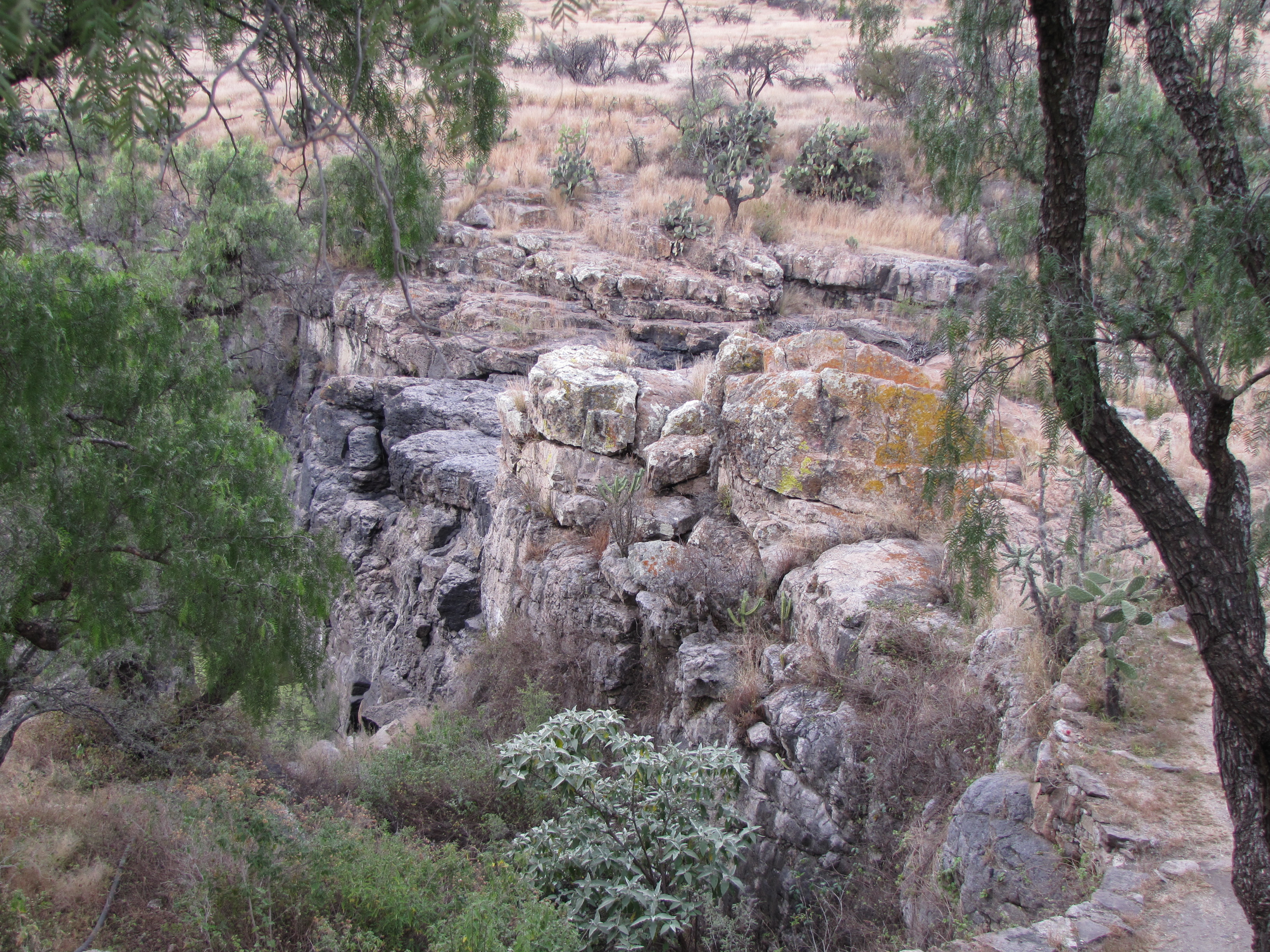 Ravine along the Laja River, El Charco del Ingenio botanic garden, San Miguel de Allende Guanajuato, Mexico